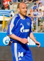 Erik Hagen playing in Russian Premier League